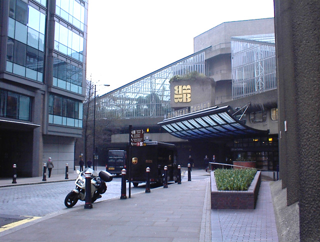 Barbican Silk Street. The main entrance to the Barbican Arts Centre. The old Roman London Wall runs close by.